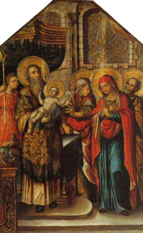 The Candlemas day